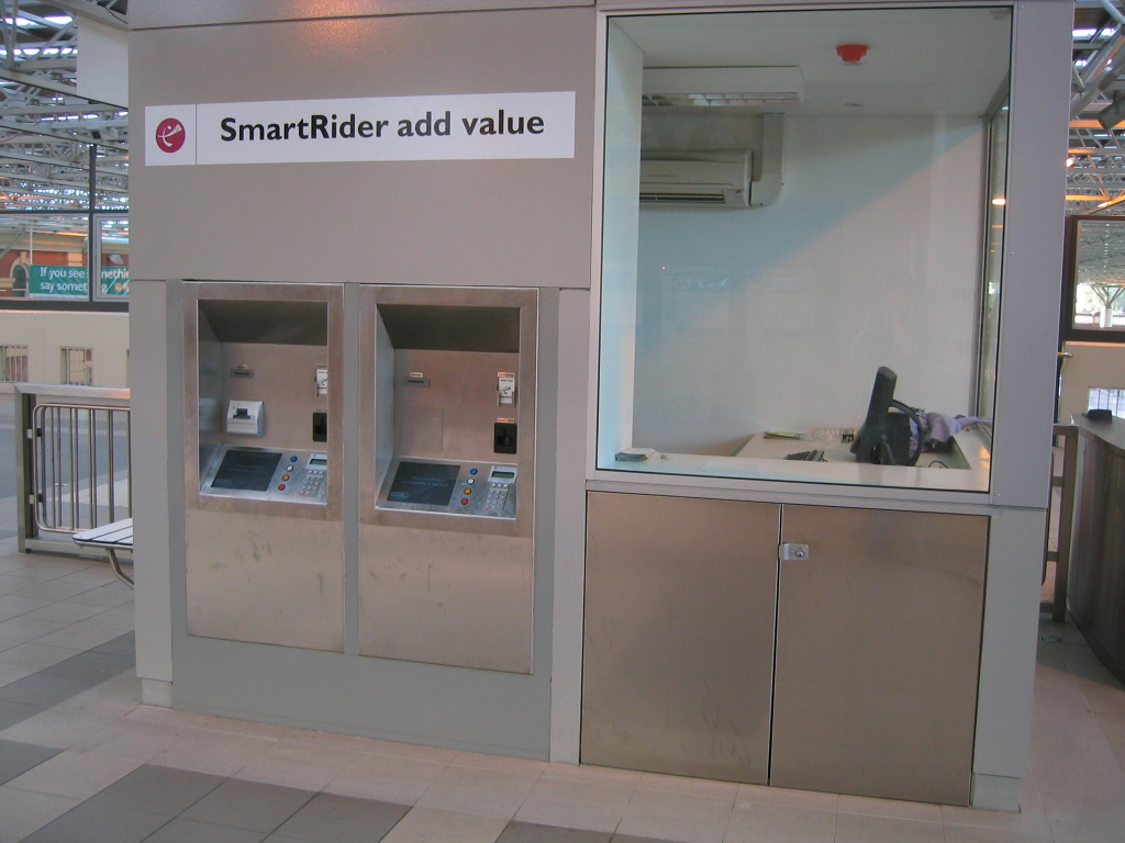 Transperth SmartRider Add Value Machine at Perth Train Station